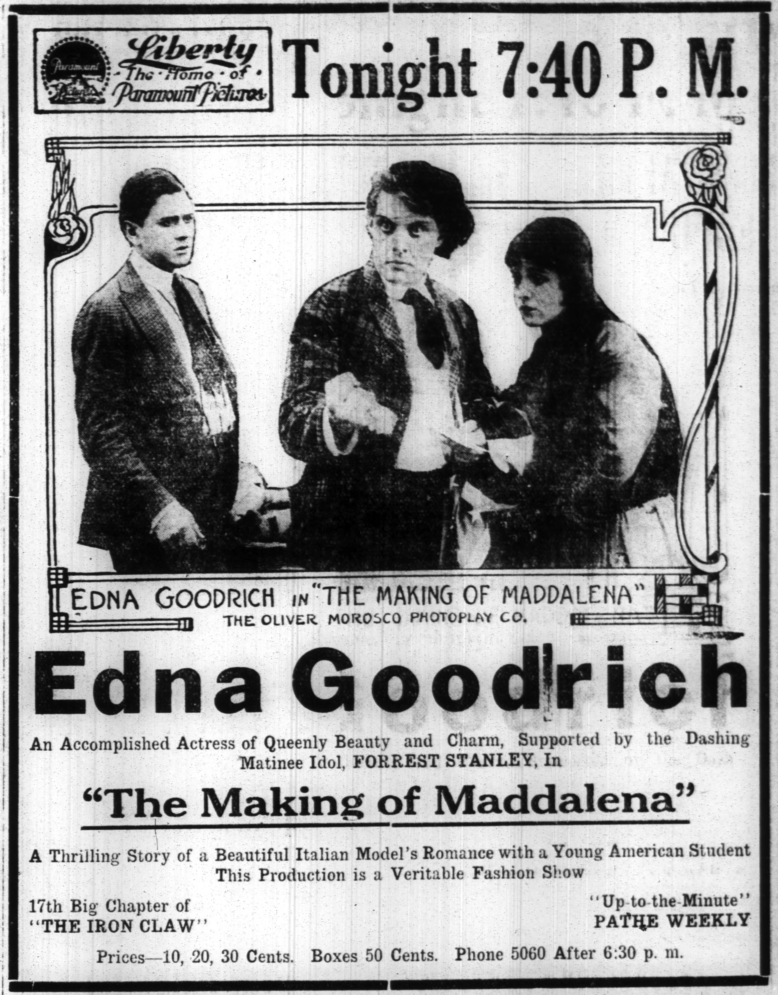 The Making of Maddalena is a 1916 American drama silent film directed by Frank Lloyd and written by Samuel Service, Mary Service and L.V. Jefferson. This is a newspaper advert for the film.